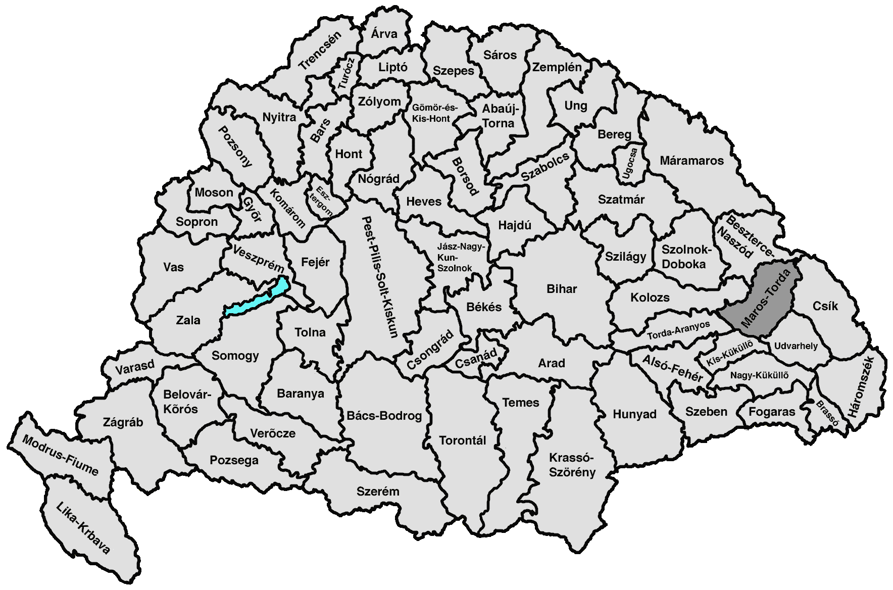 own edit of Image:Zala.png